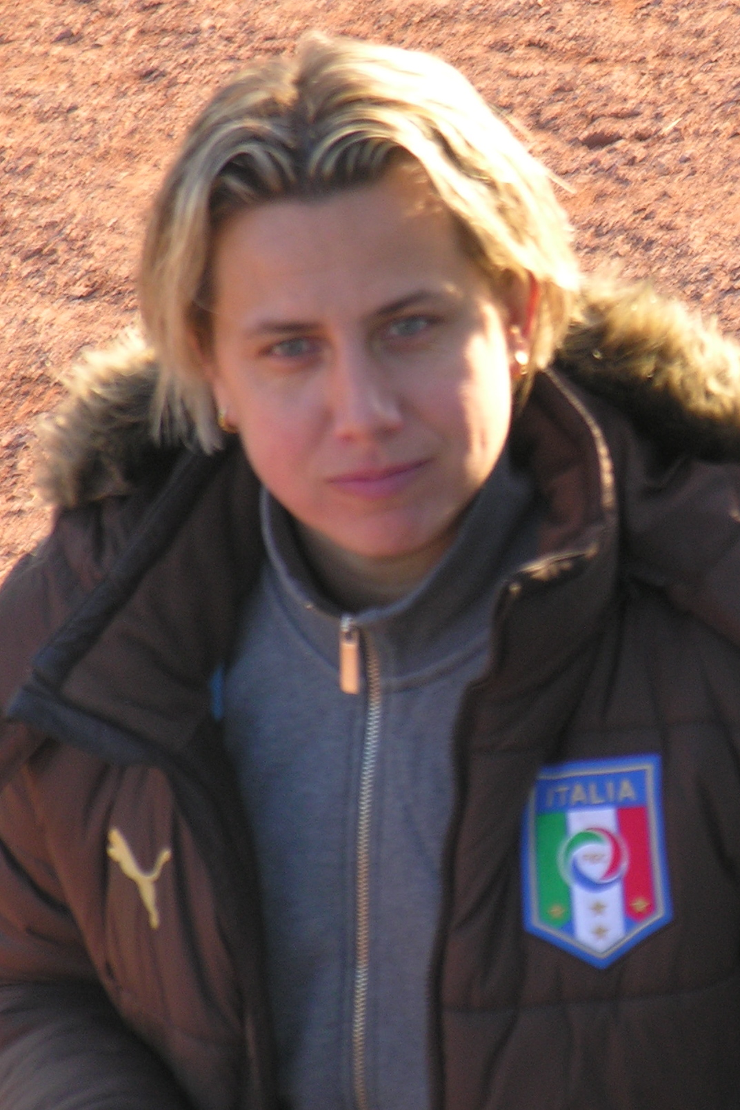 Aranka Paraoánu Hungarian international football player